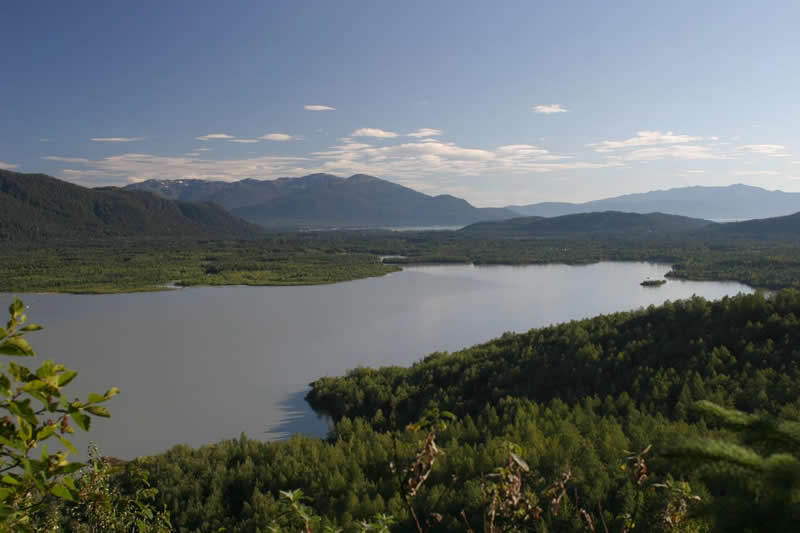 Mendenhall Valley, Juneau, Alaska Looking from the West Glacier Trail across Mendenhall Lake towards the Juneau airport.